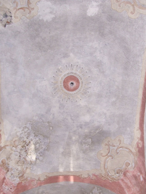 Synagogue in Bychawa